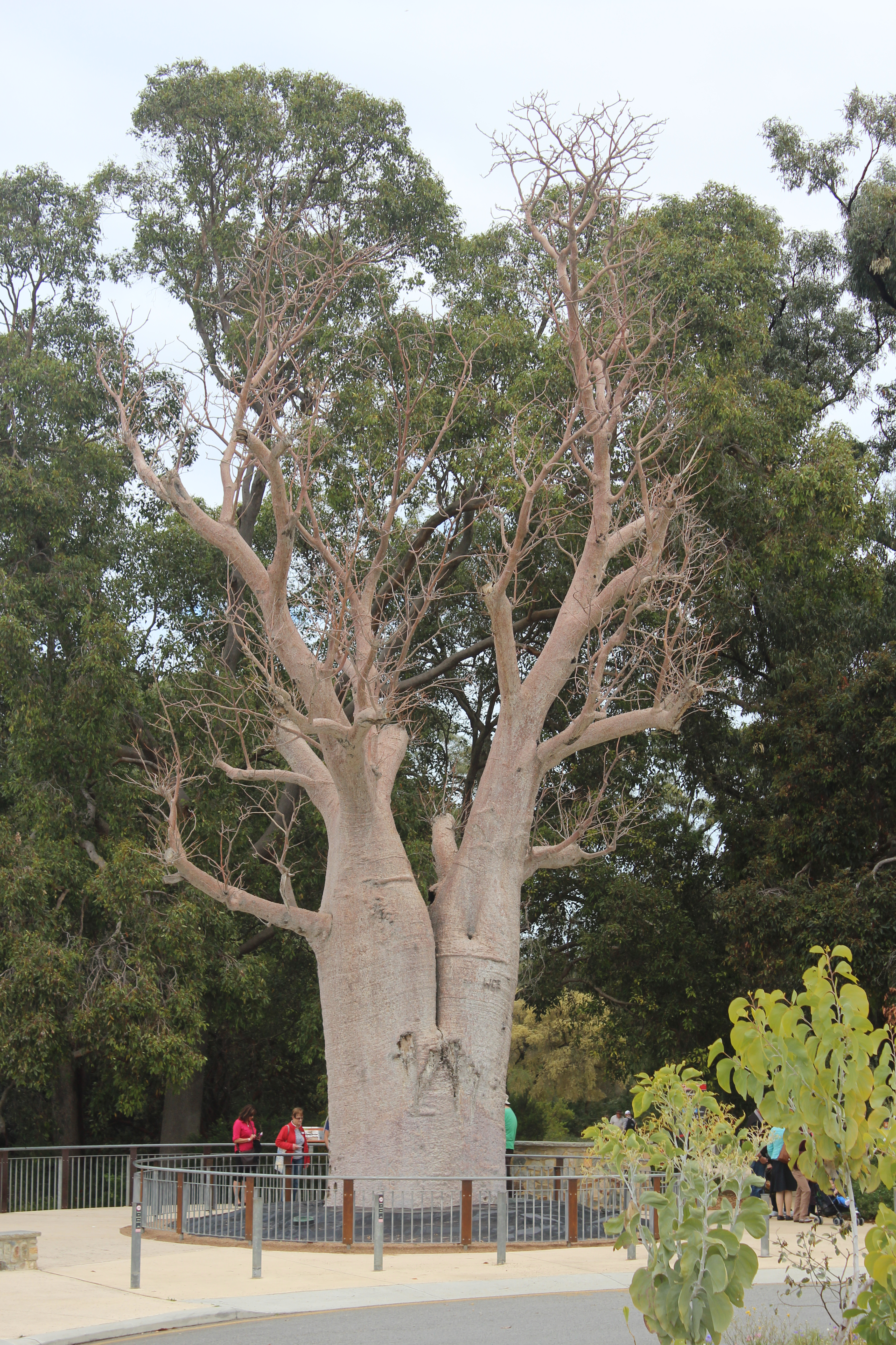 Gija Jumulu is a 750 year-old Boabab tree that stood in the way of a new bridge that was to be constructed near Telegraph Creek in the northern part of Western Australia. The Gija people of East Kimberley gifted the tree to the people of Western Australia and after a 3200 km journey it was replanted at Kings Park, Perth on 20 July 2008.